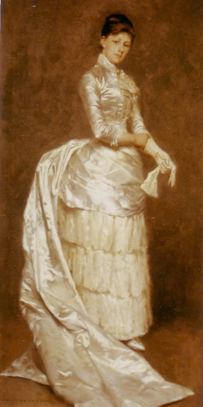 Emile Claus' wife Charlotte Dufaux, painted by the artist